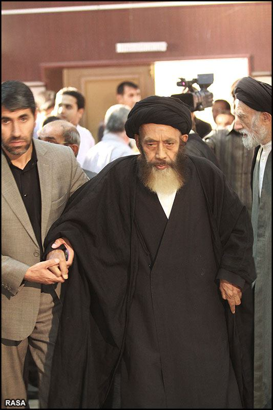 سید طیب جزایری